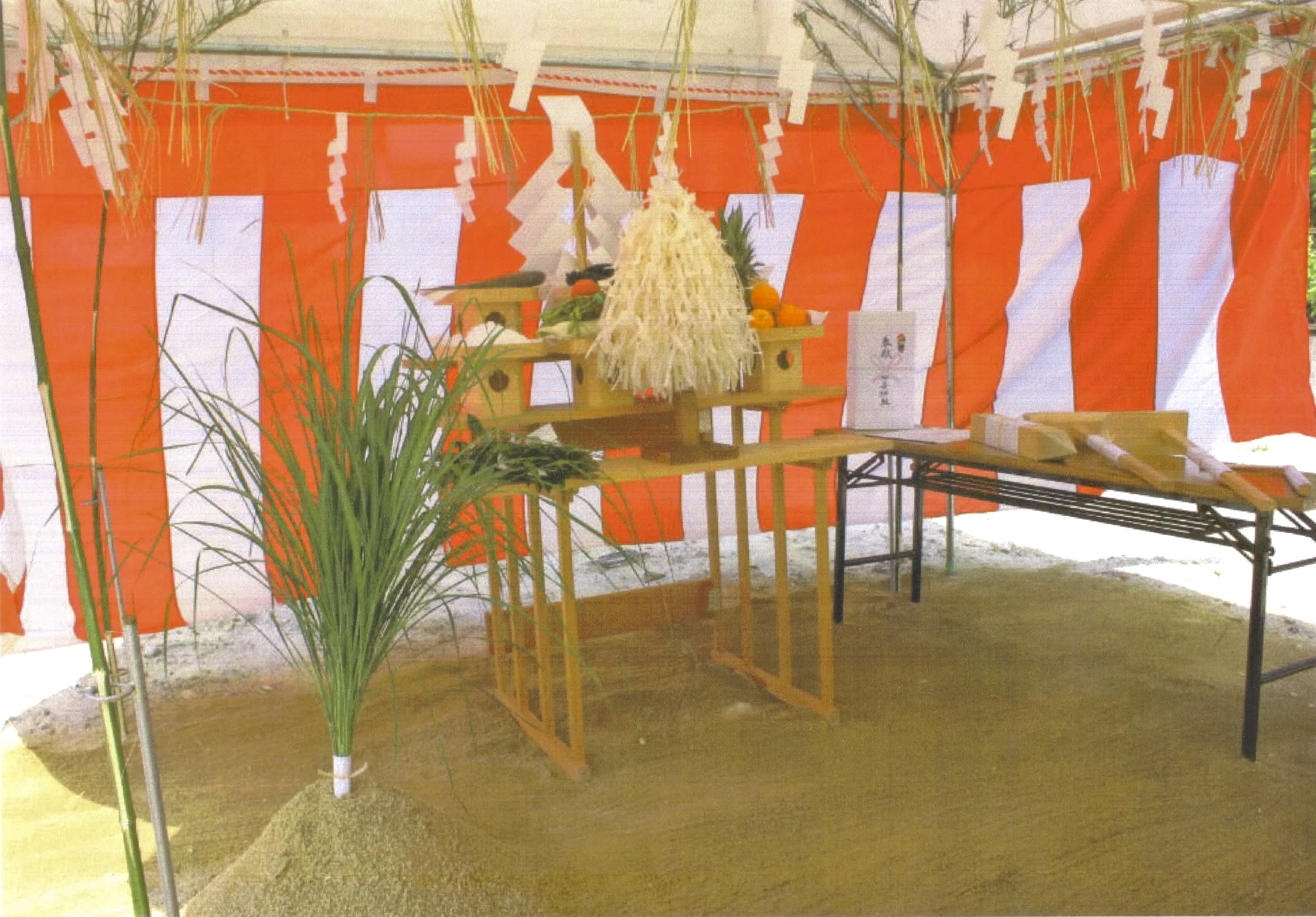 A himorogi erected for a Jichinsai (Ground-breaking Ceremony)